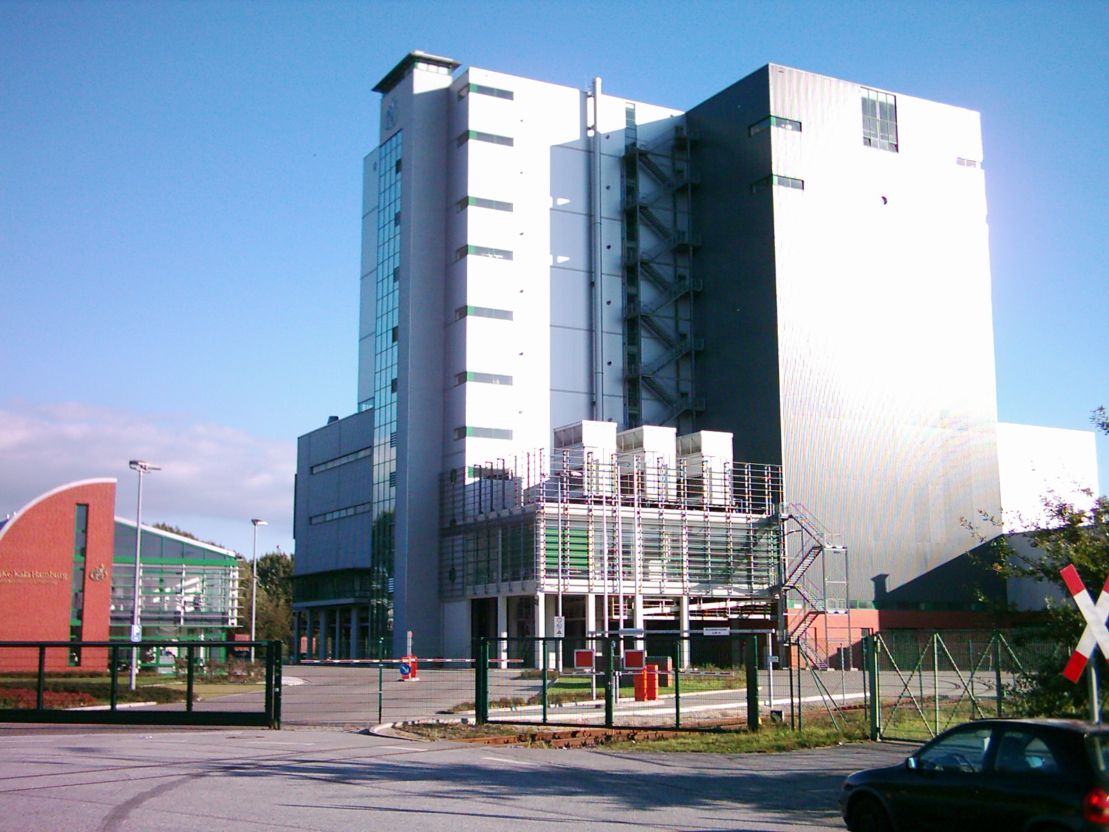 NKG Kala Hamburg, member of Neumann Kaffee Gruppe, Hamburg, Germany.